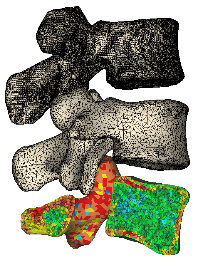 Created specifically for this wiki page Summary Created specifically for this wiki page